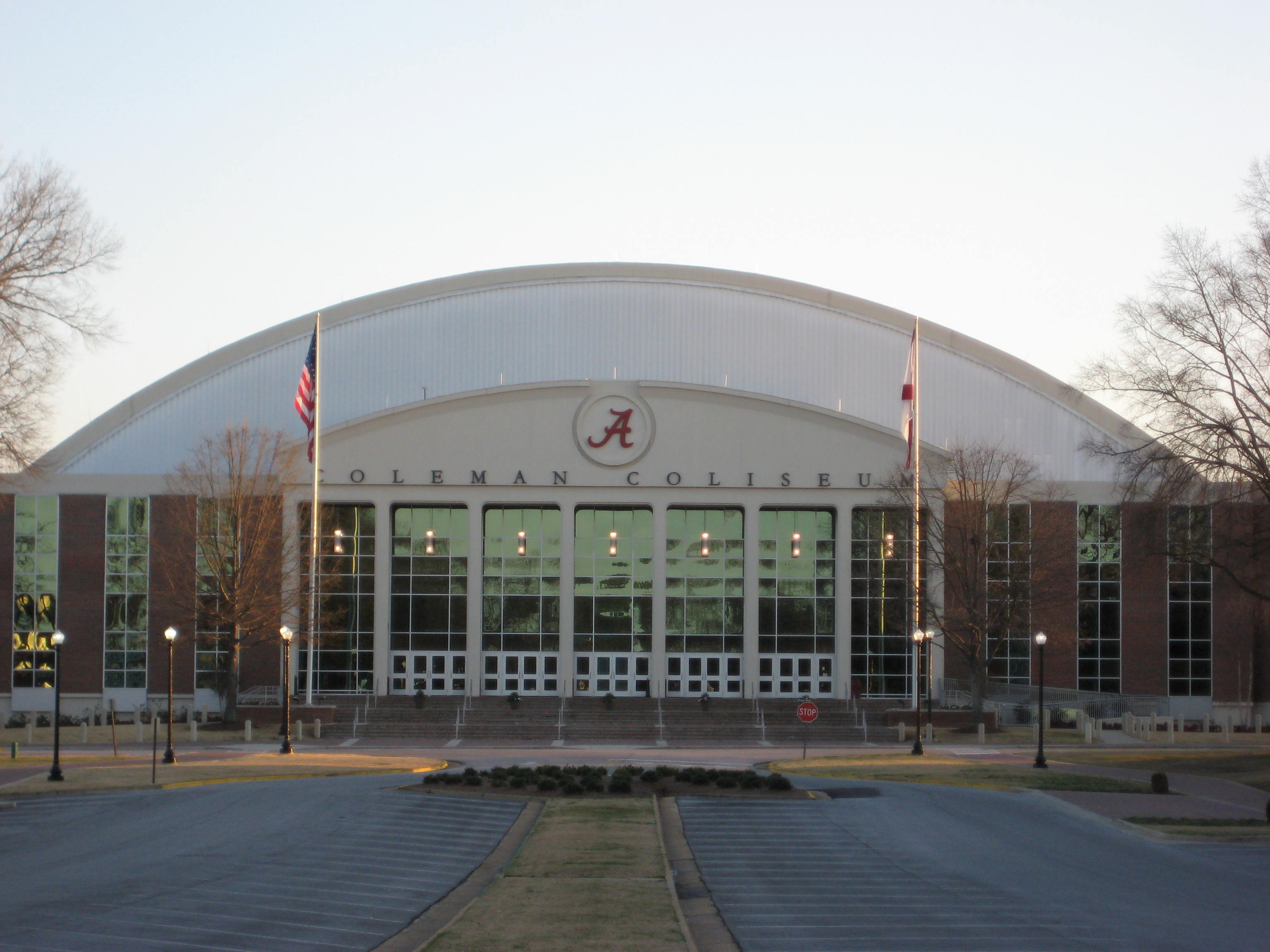 front shot of Coleman Coliseum